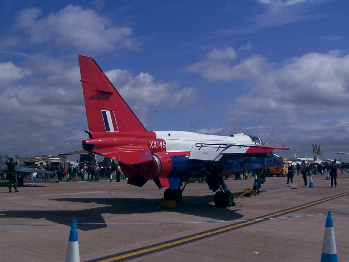 SEPECAT Jaguar T2 serial number XX145 of the Empire Test Pilots' School on display at the Royal International Air Tattoo at RAF Fairford, England in 2004